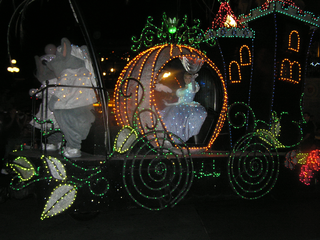 Cinderella's unit in the SpectroMagic parade.